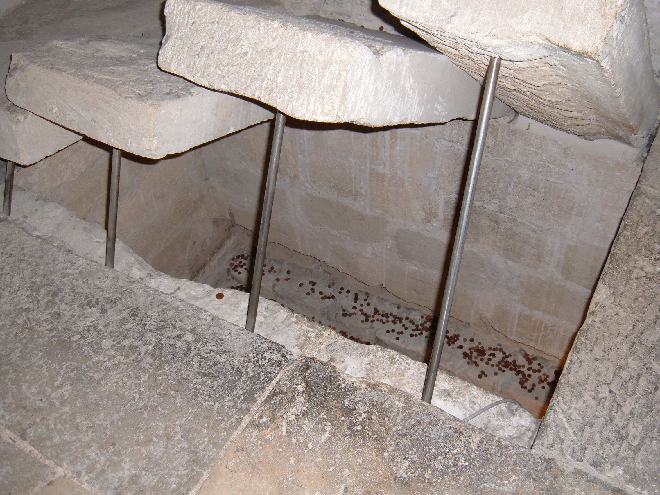 Floor vault in the Comerier of the Palais des Papes in Avignon, France.